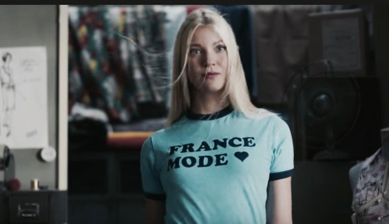 Mona Walravens is a Belgian actress, here in the 2018 French film Comme des garçons.